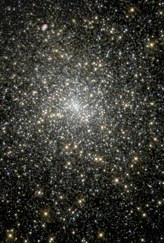 This is Globular Cluster M15 as imaged by the Hubble Space telescope in December 1998. This cluster lies 32,000 light years away in the constellation Pegasus. An intermediate-mass black hole lies at the core, with a mass about 4,000 times that of the Sun. Image Credit: NASA and The Hubble Heritage Team. (STSci/AURA)